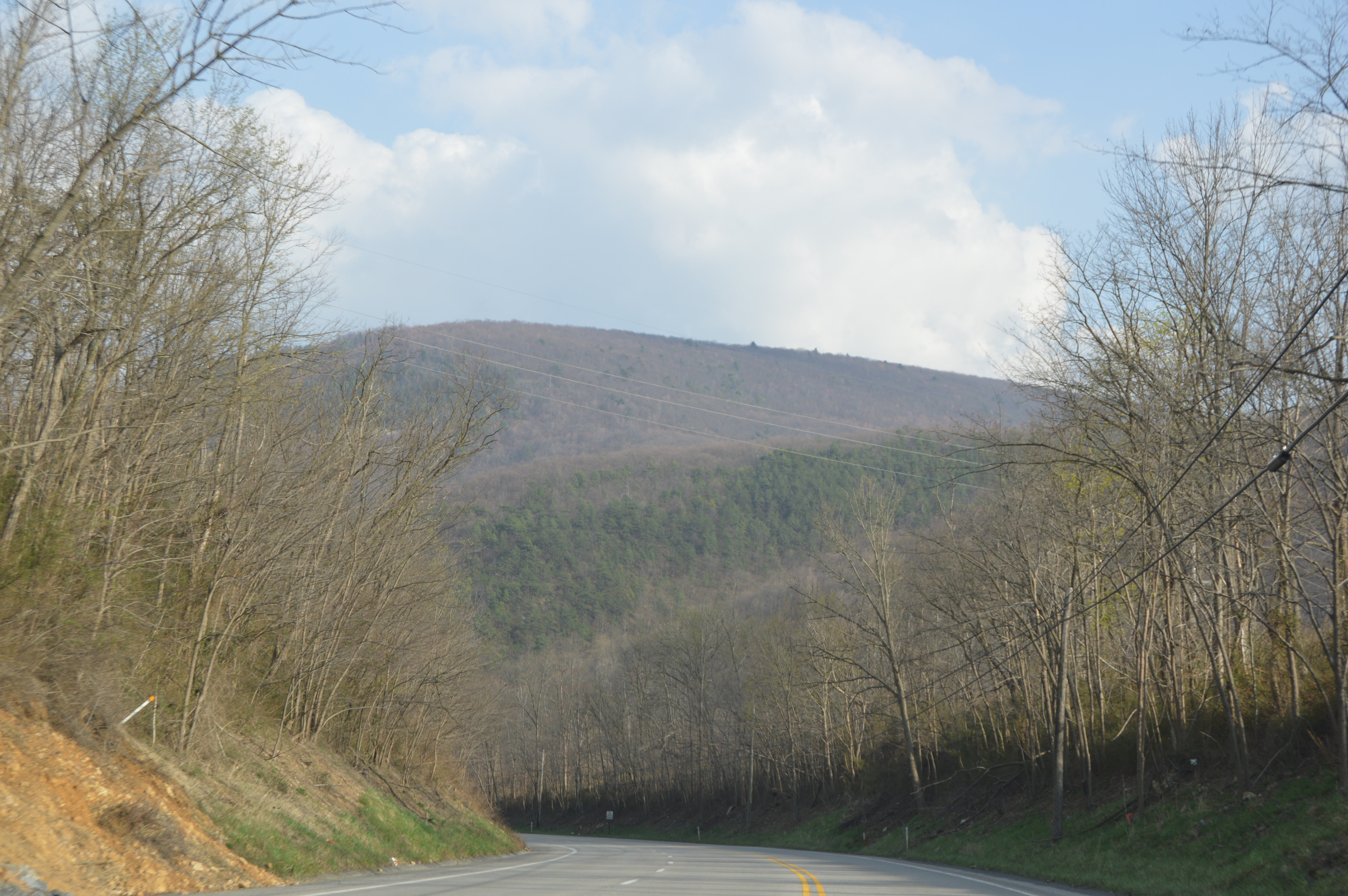 Looking southward along U.S. Route 22 just northeast of Mapleton in far southern Brady Township, Huntingdon County, Pennsylvania, United States. Jacks Mountain looms in the background.